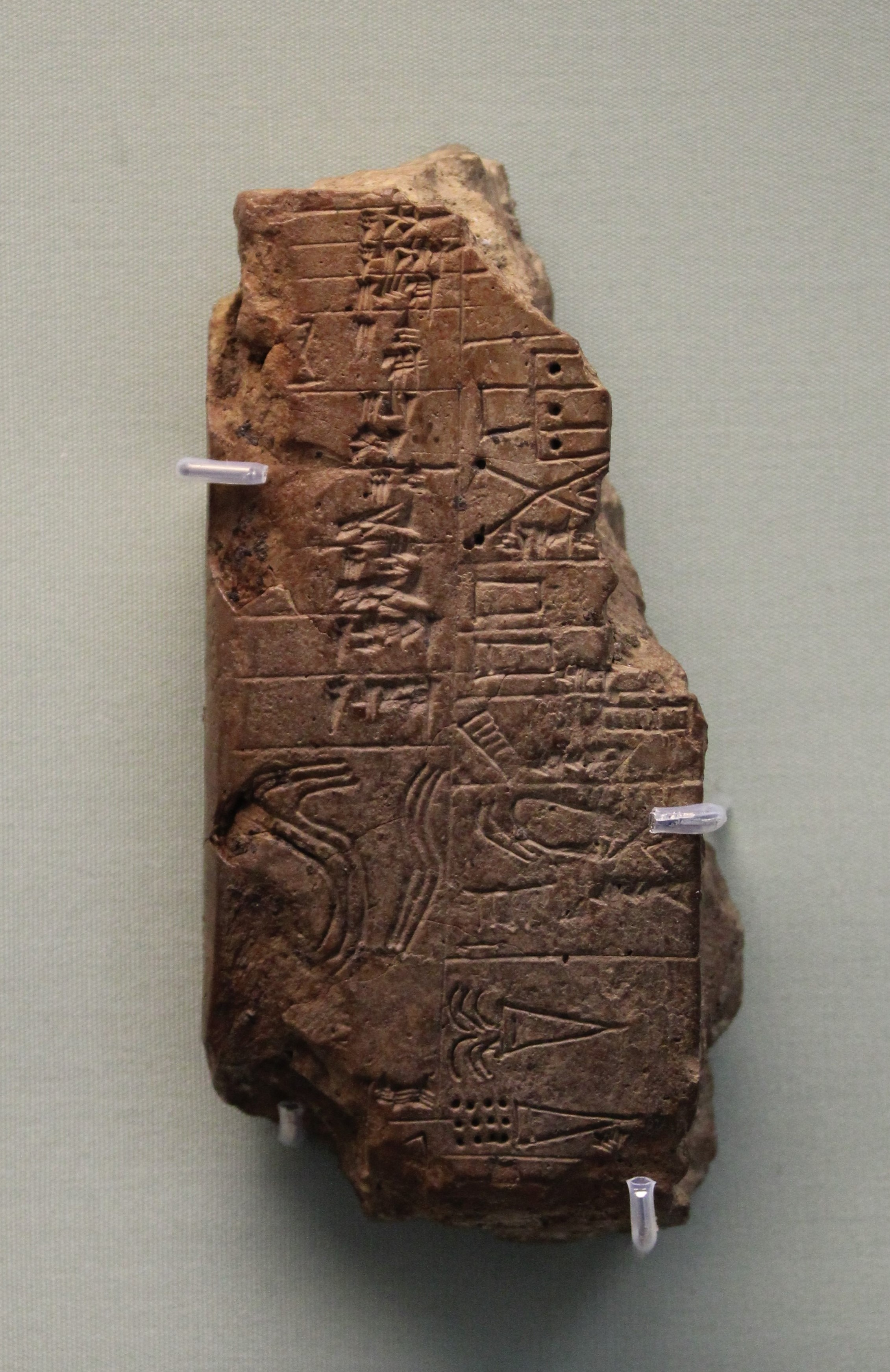 Scholarly tablet from Babylonia, c. 450 BC : list setting old cuneiform signs against their current version, and lists the secret number for each signs, used for encoding in omens and other "esoteric" texts. Edited in Laurie E. Pearce, "The Number-Syllabary Texts", in Journal of the American Oriental Society, Vol. 116, No. 3 (Jul. - Sep., 1996), pp.453-474. BM 46603.